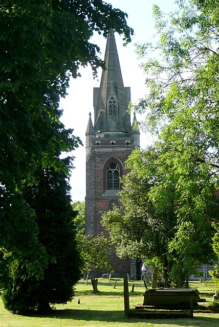 St. Michael's church The older part of the churchyard (no longer used for burials) and the tower, from the south. There has been a church on the site since 1189, but the tower seen here dates from the 1730s and the spire was added in 1855. Until 50 years ago, this area would have been a separate village surrounded by green fields, but these days it is very much a suburb of Reading. There is a very informative web page here